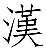 Traditional Chinese character symbol from the Fangsong Font